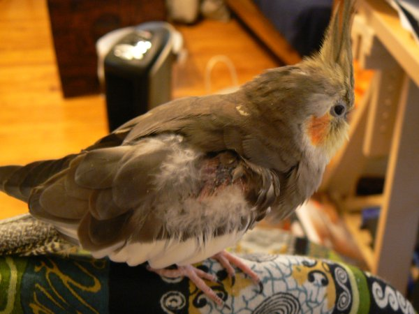 Author: Self URL: Image:Plucked shoulder.jpg